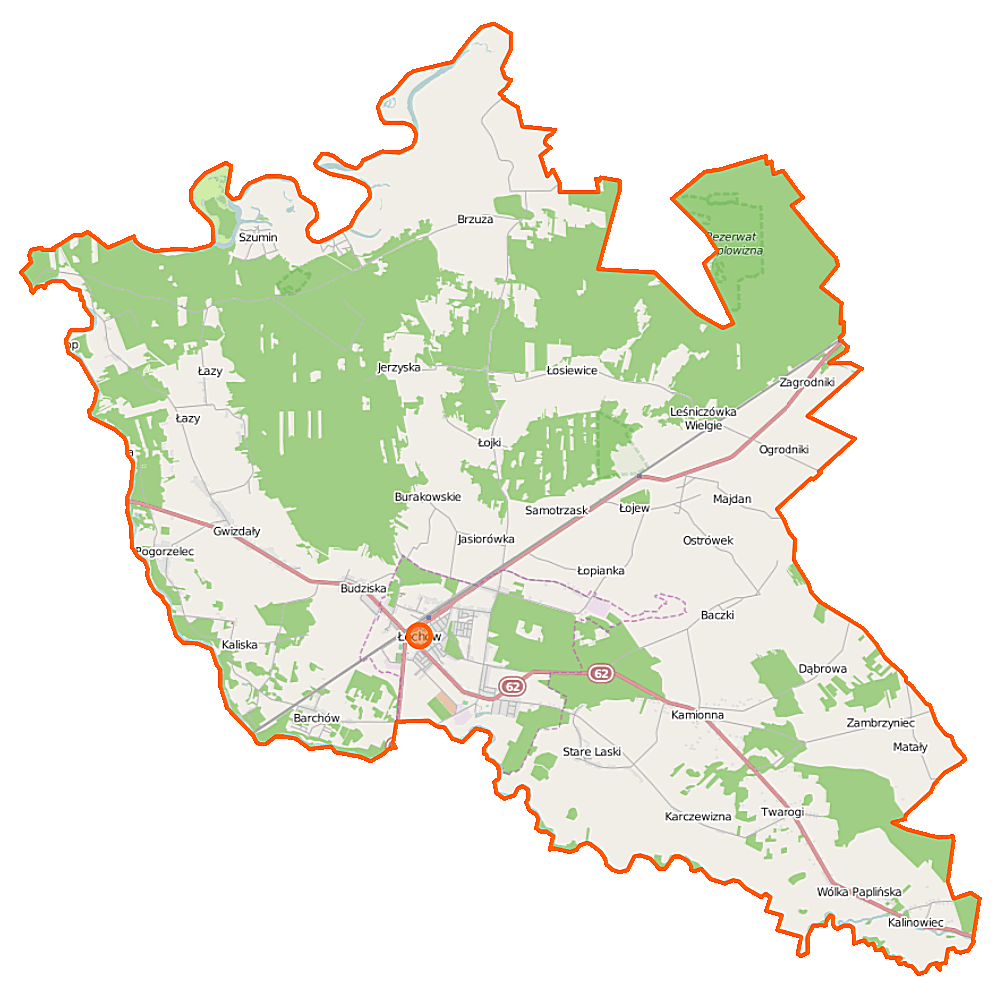 Map of Gmina Łochów, Poland This map of Łochów (gmina) was created from OpenStreetMap project data, collected by the community. This map may be incomplete, and may contain errors. Don't rely solely on it for navigation. Border coordinates52.647621.5579←↕→21.862452.4644